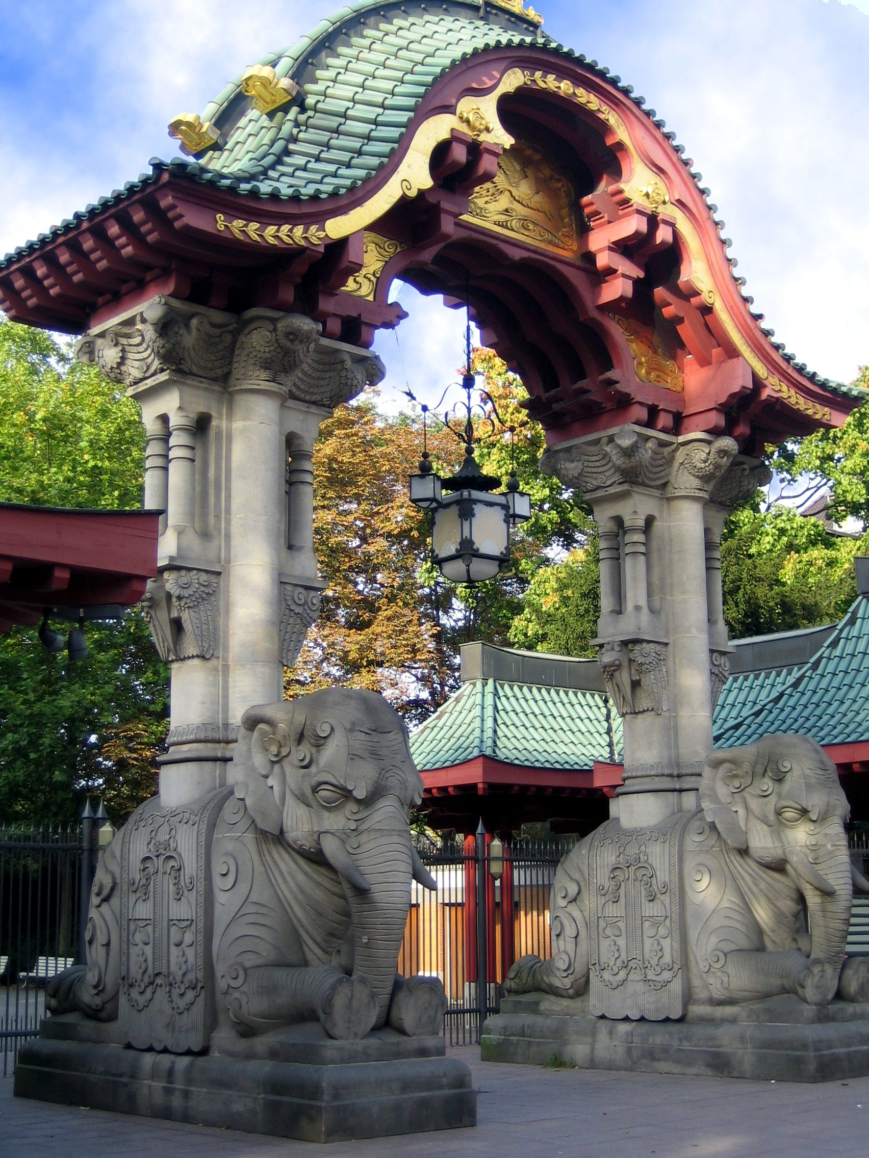 Zoo Berlin, the "Elefantentor" (Elephants Gate). Sculptures by Wilhelm Mues.